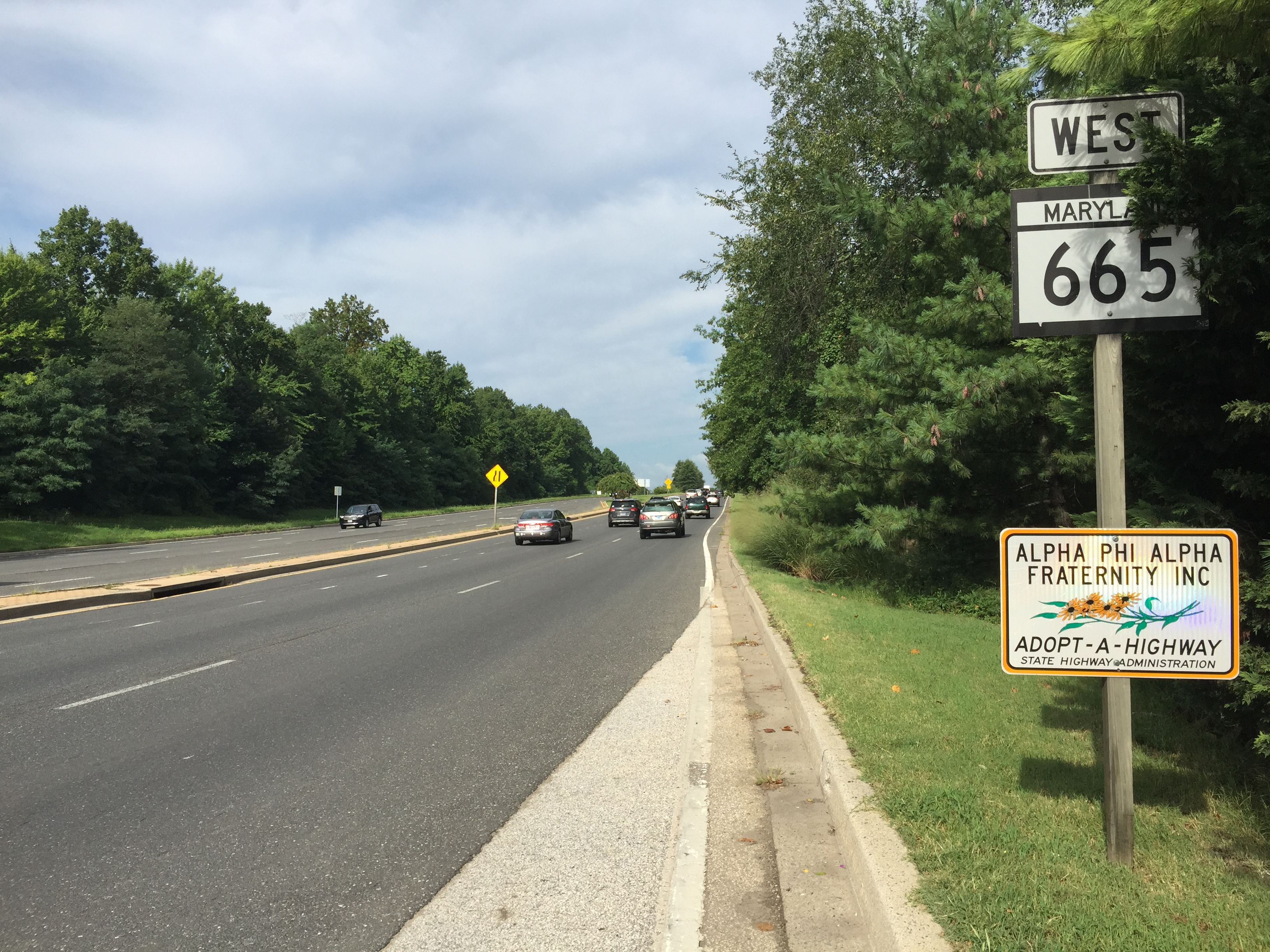 View west along Maryland State Route 665 (Aris T Allen Boulevard) at Chinquapin Round Road in Annapolis, Anne Arundel County, Maryland